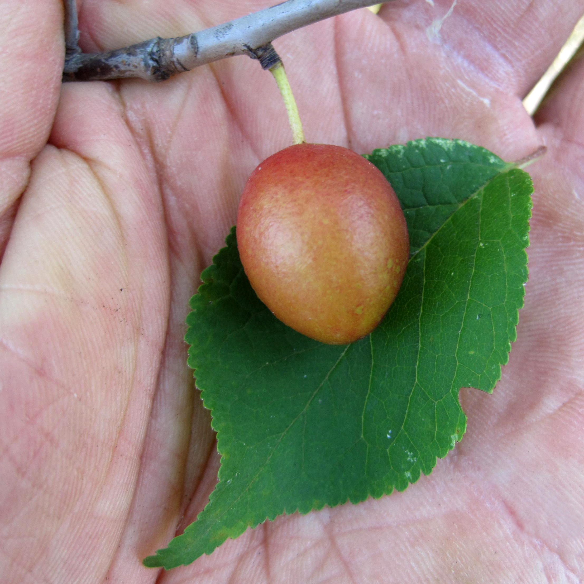 Canadian plum - Prunus nigra Aiton Descriptor: Fruit(s) Description: Canada plum (Prunus nigra) typical leaf and ripening fruit Image type: Field Image location: Whitefish Island, Sault Ste. Marie, Ontario, Canada - See more at